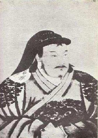 Portrait of young Kublai Khan. Original portrait has caption: Portrait of Kublai Khan, the son of Hulagu Kahn, Emperor of all China (died 1294)